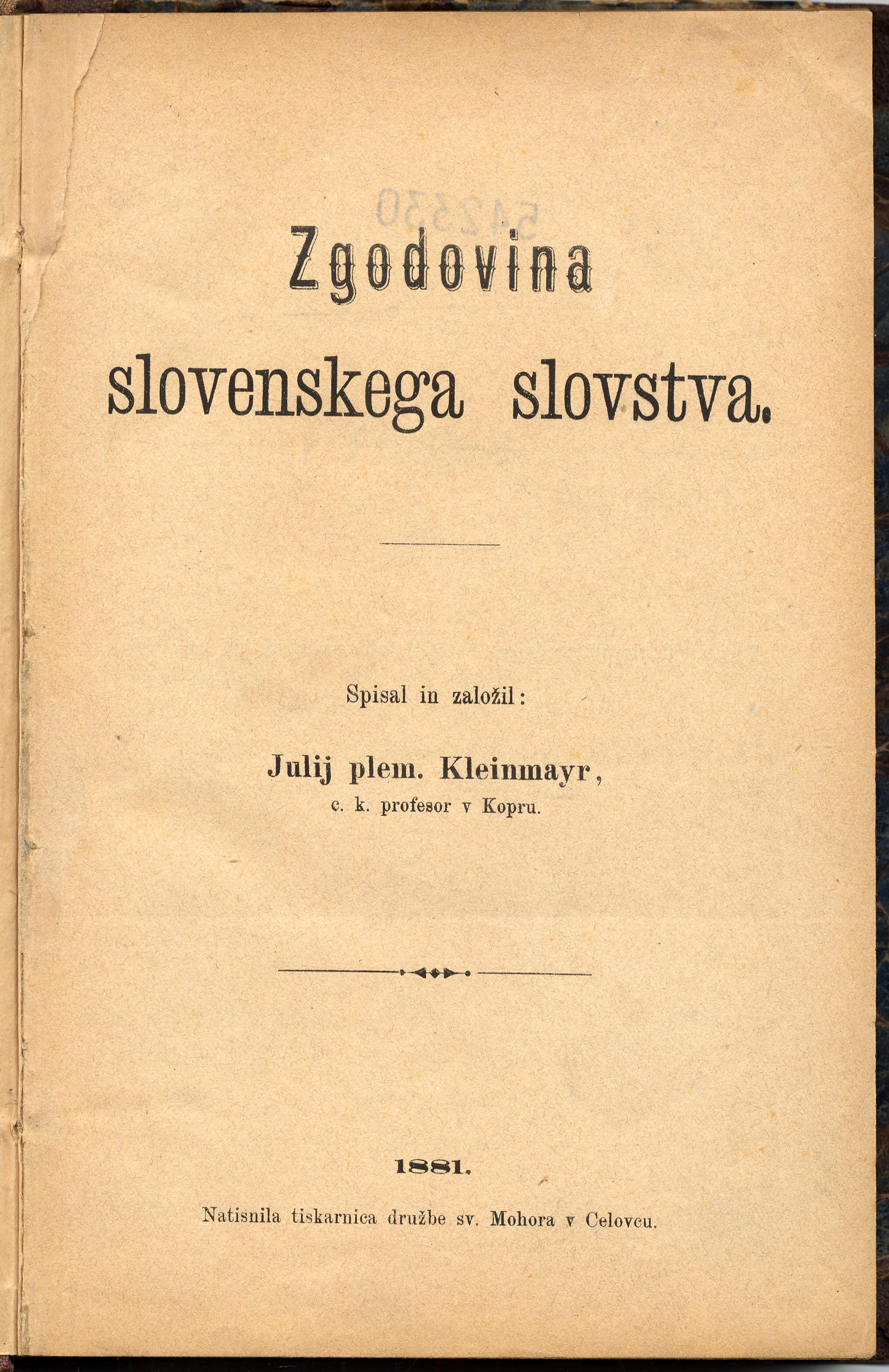 Zgodovina slovenskega slovstva by Julij Kleinmayr.